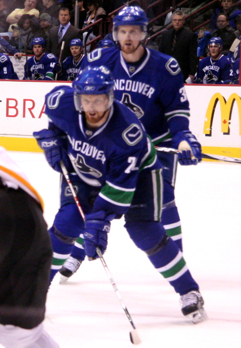 Vancouver Canucks forwards Daniel and Henrik Sedin during a game against the Calgary Flames on December 28, 2007.